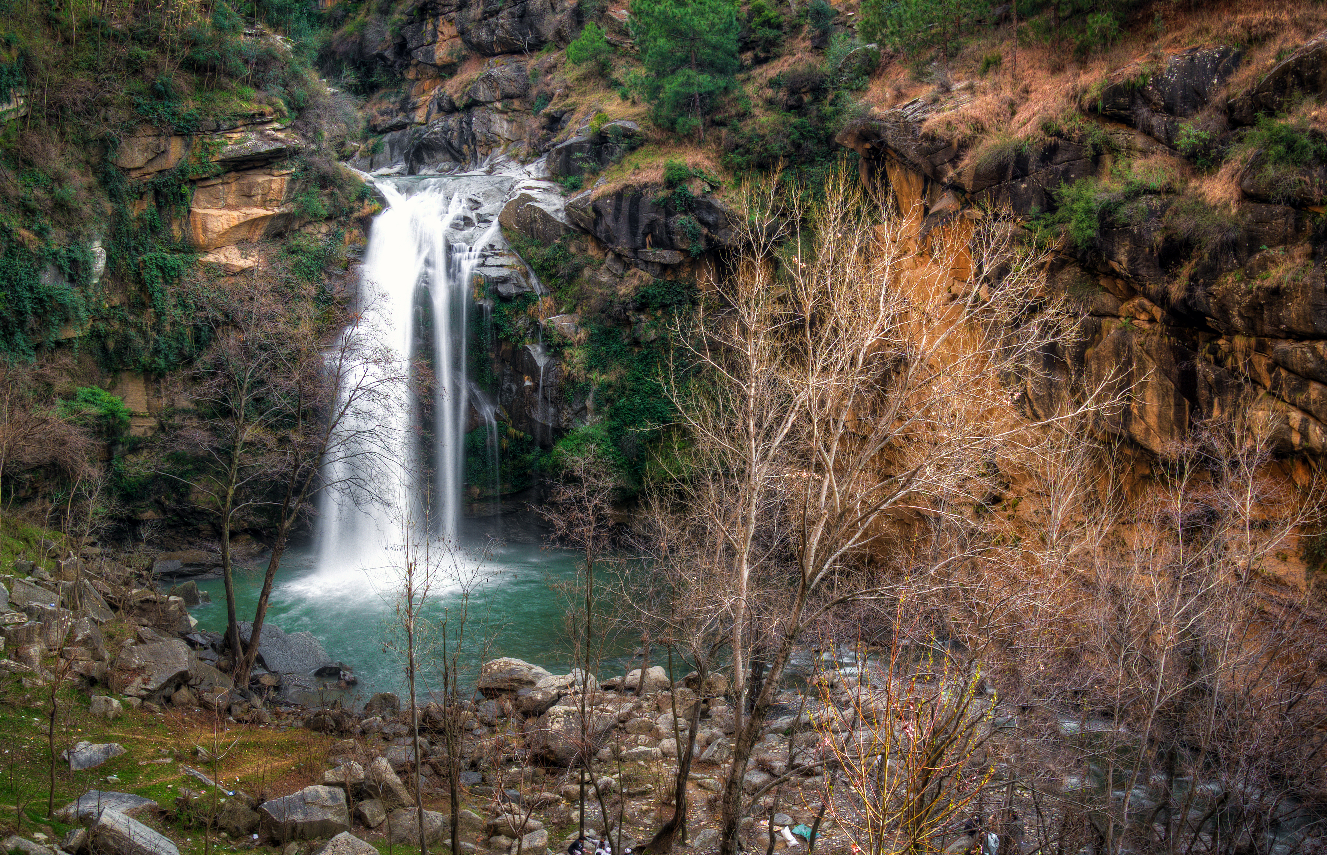 A beautiful huge Water Fall located in Swat Valley in a village named Shingrai